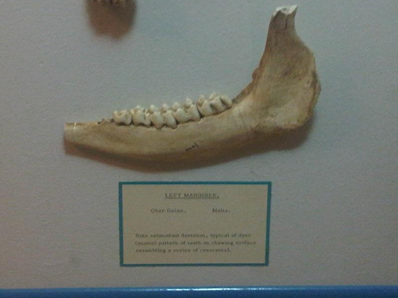 Fossilized left mandible of the red deer (Cervus elaphus) from Għar Dalam; at the National Museum of Natural History, Vilhena Palace, Republic of Malta.